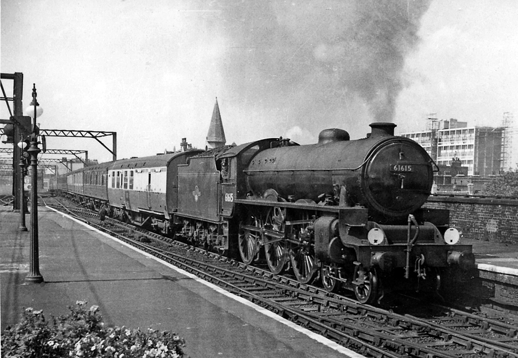 Liverpool Street - Hunstanton express passing Bethnal Green Station. View westward, towards Liverpool Street; ex-Great Eastern main line to Cambridge etc., the main line to Colchester etc. being off to the left. The train is the 12.14 Summer Saturday express from the terminus which reached Hunstanton at 15.54, after reversal at Kings Lynn. The locomotive is LNE B2 (rebuilt 'Sandringham') 4-6-0 No. 61615 'Culford Hall' and is climbing forcefully up the bank from Liverpool Street.